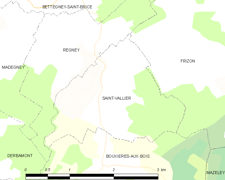 Map of French municipality Saint-Vallier